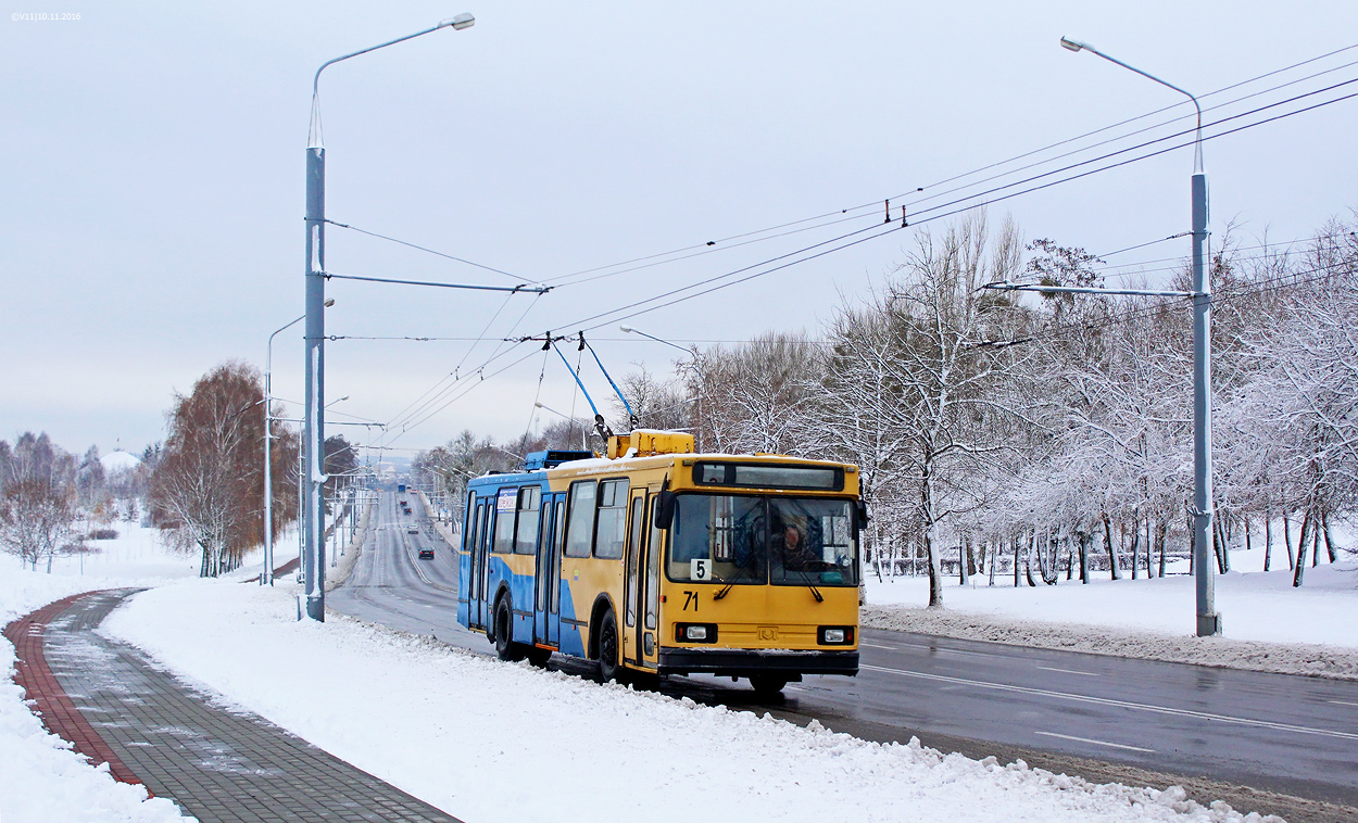 BKM 20101 trolleybus in Hrodna